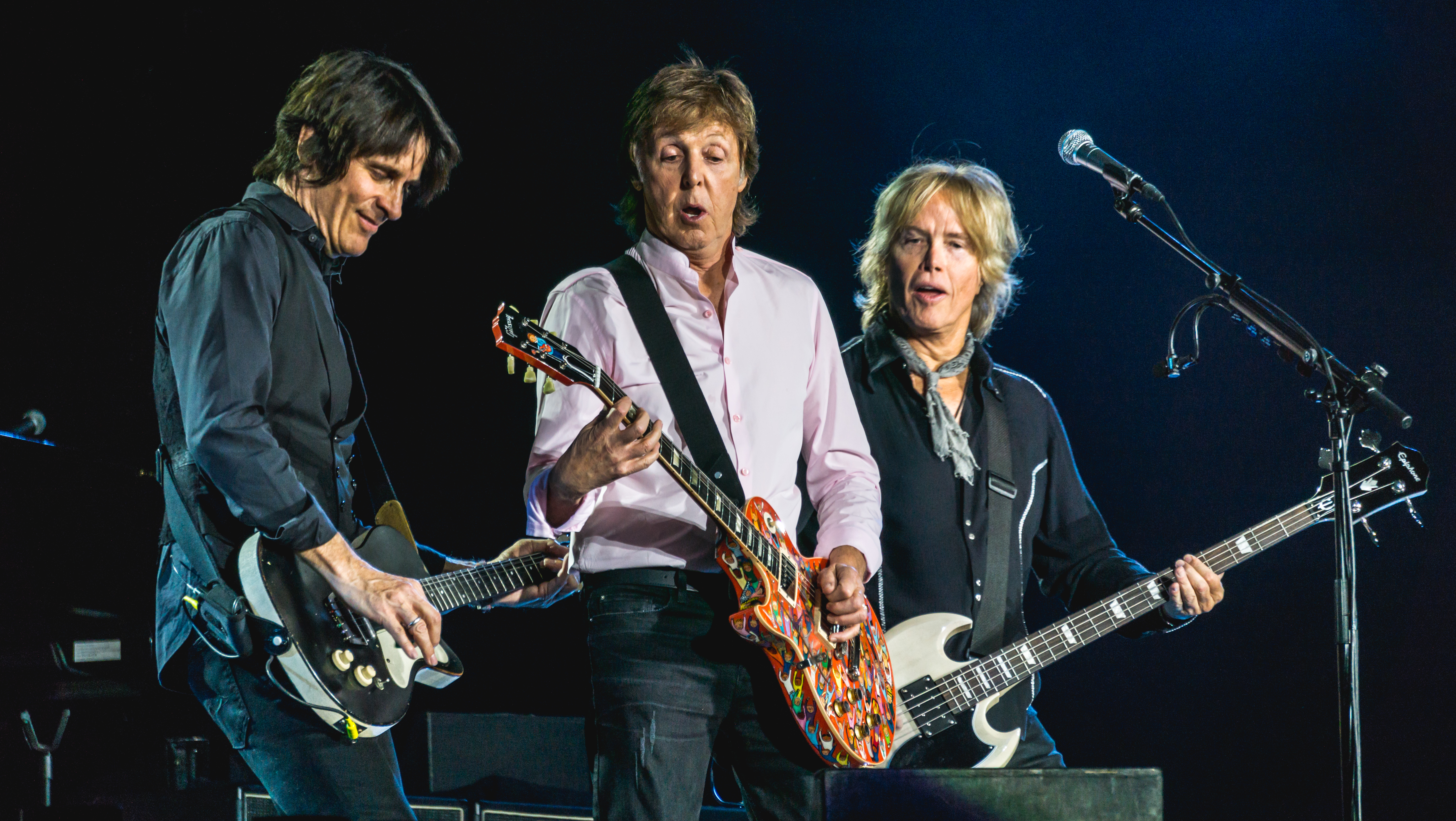 A performance by Paul McCartney on October 8, 2016 from the music festival Desert Trip, held at the Empire Polo Club